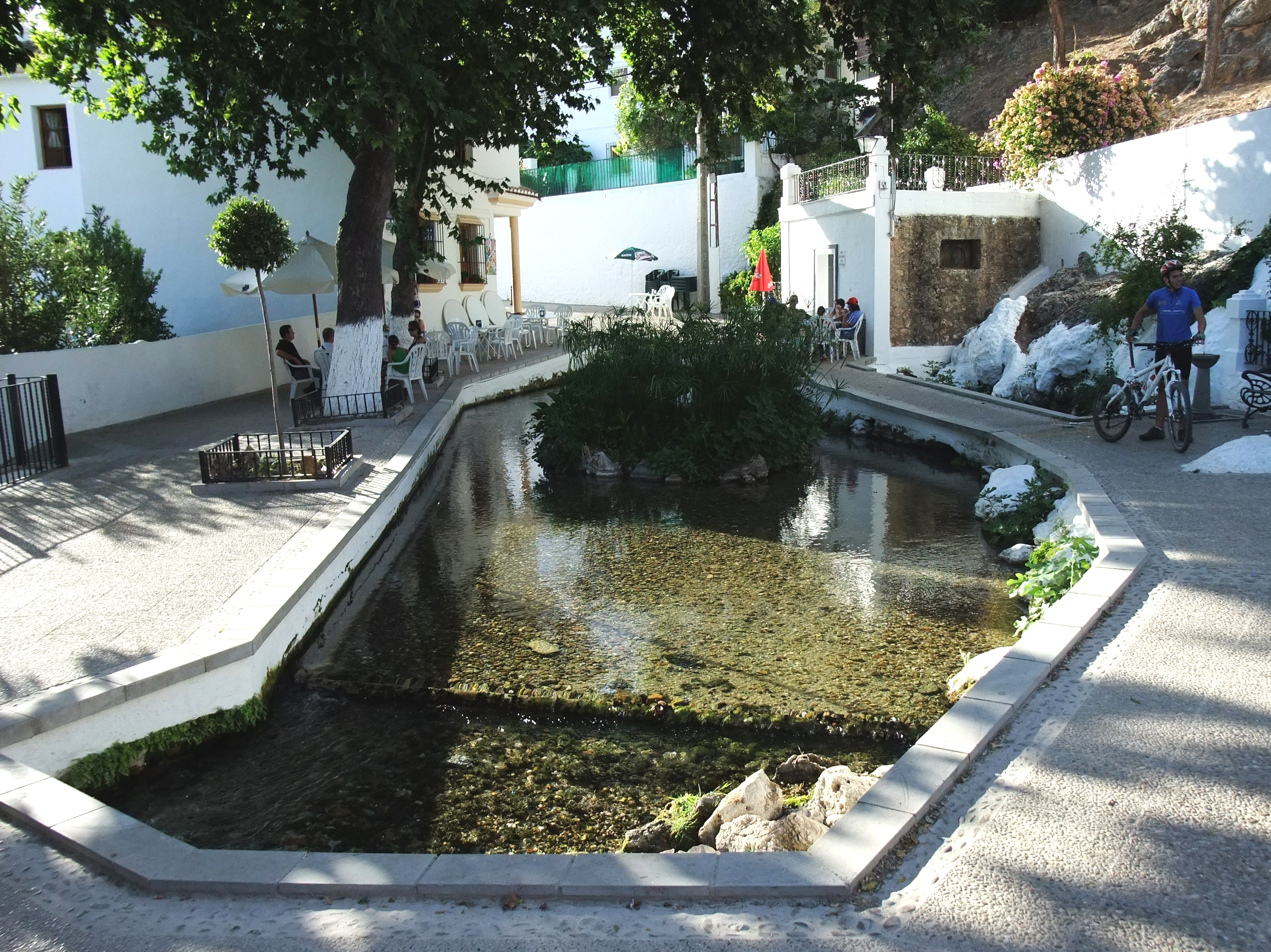 Center of Zagrilla, Province Córdoba in Andalusia, Spain. The water emerges from a karst spring "La Fuente" at the foot of the mountain (in the back).